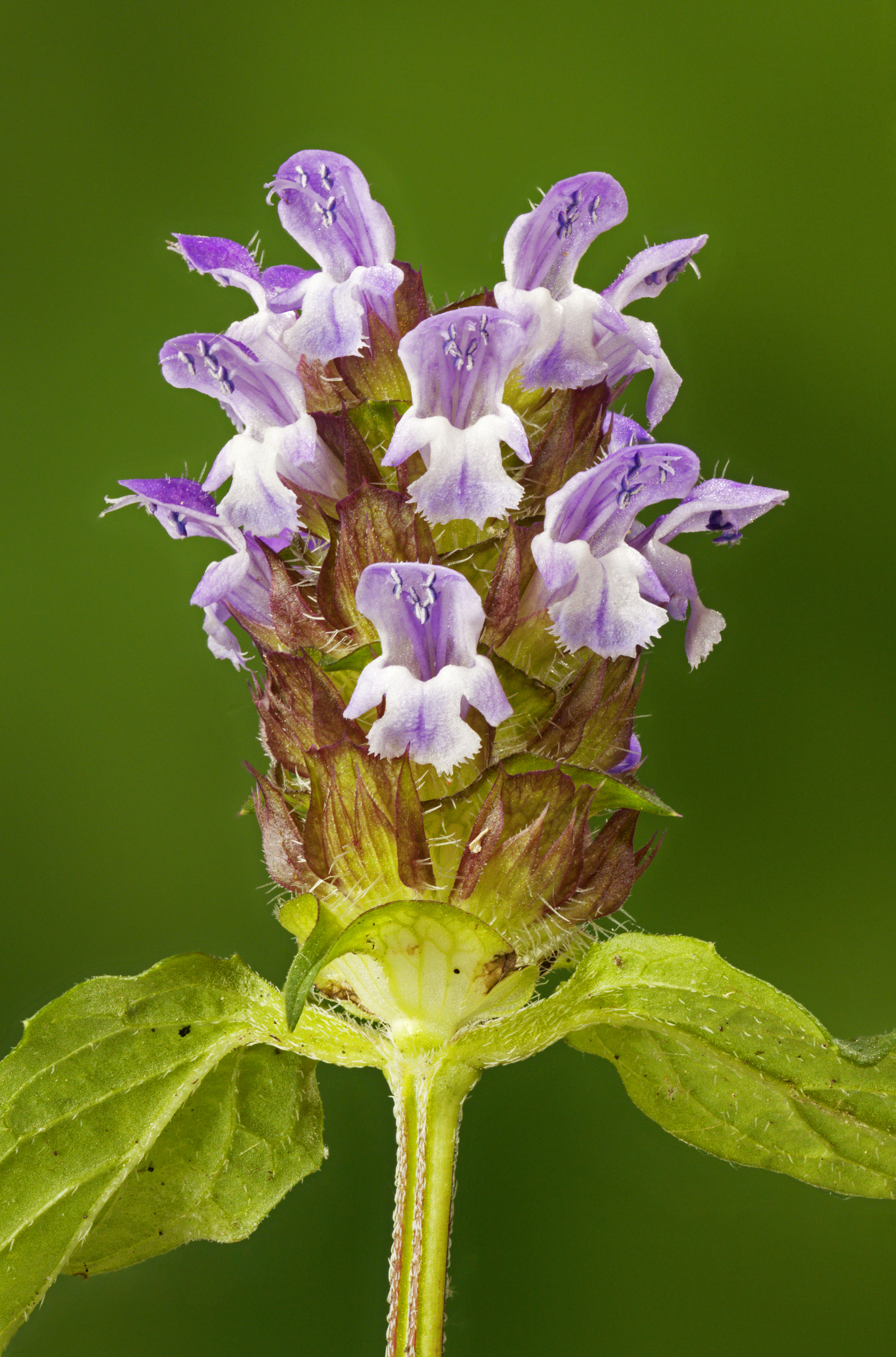 Common selfheal; Inflorescence; Karlsruhe, Germany.